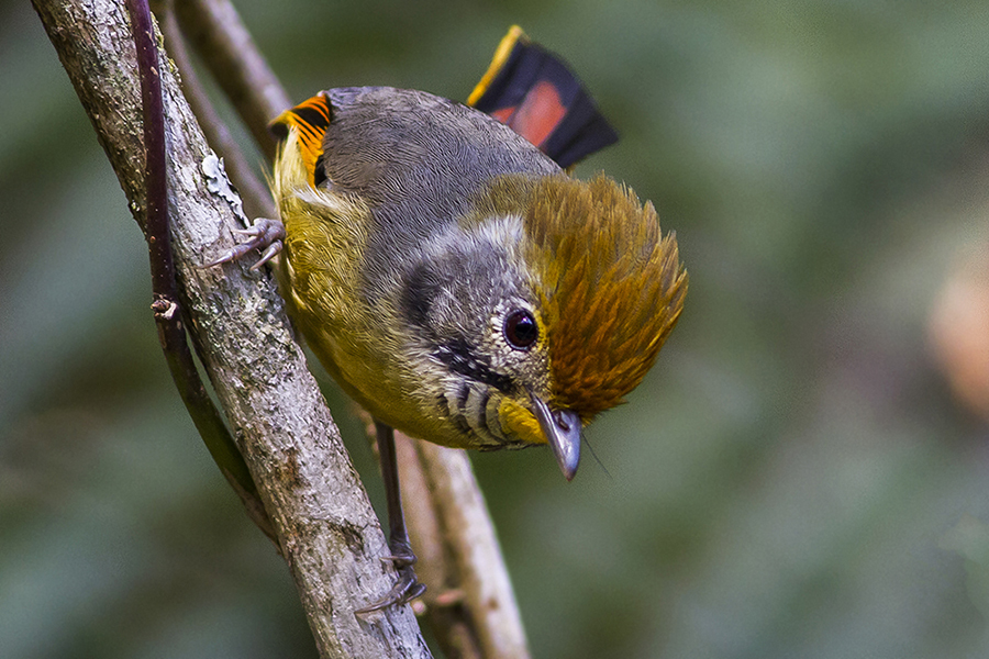 This is an image of Bar-throated Siva photographed at Fambong Lho WLS on March 2014.